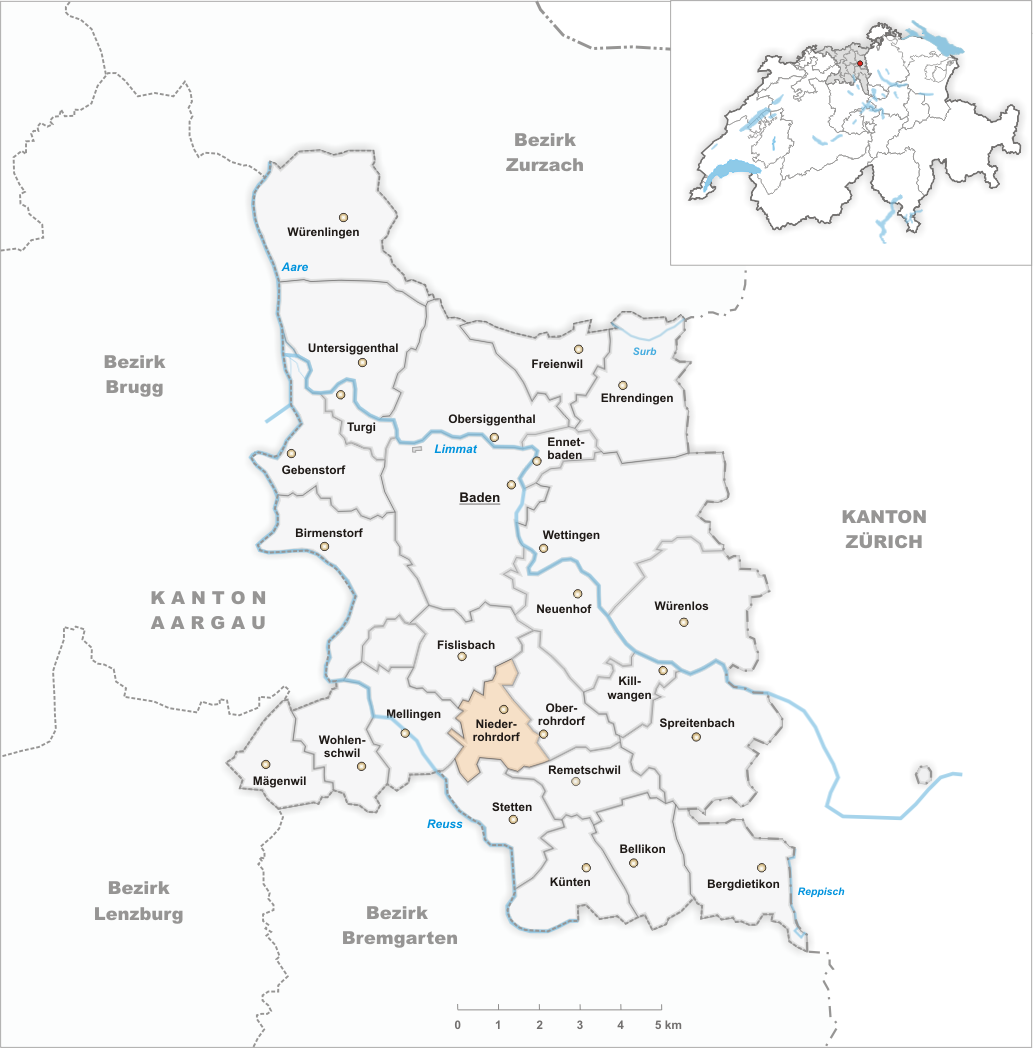 Municipality Niederrohrdorf